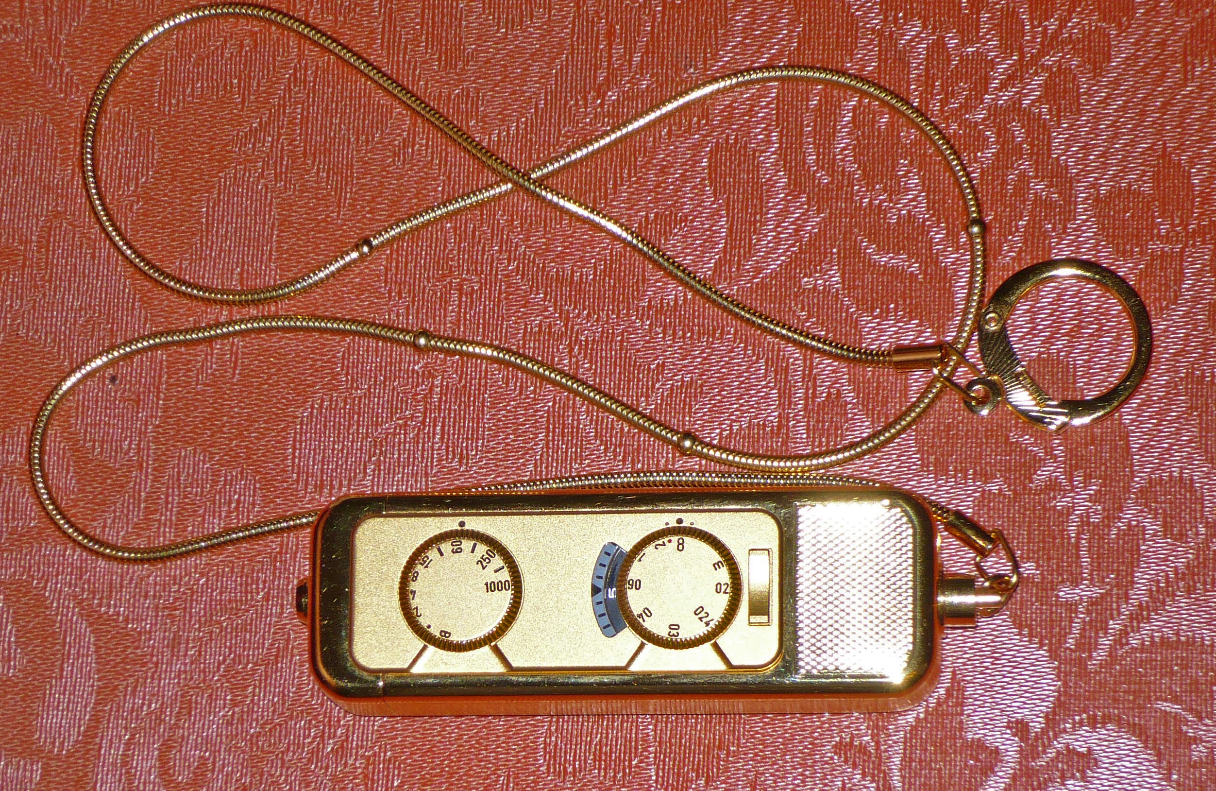 Minox AX gold model with case and wooden box